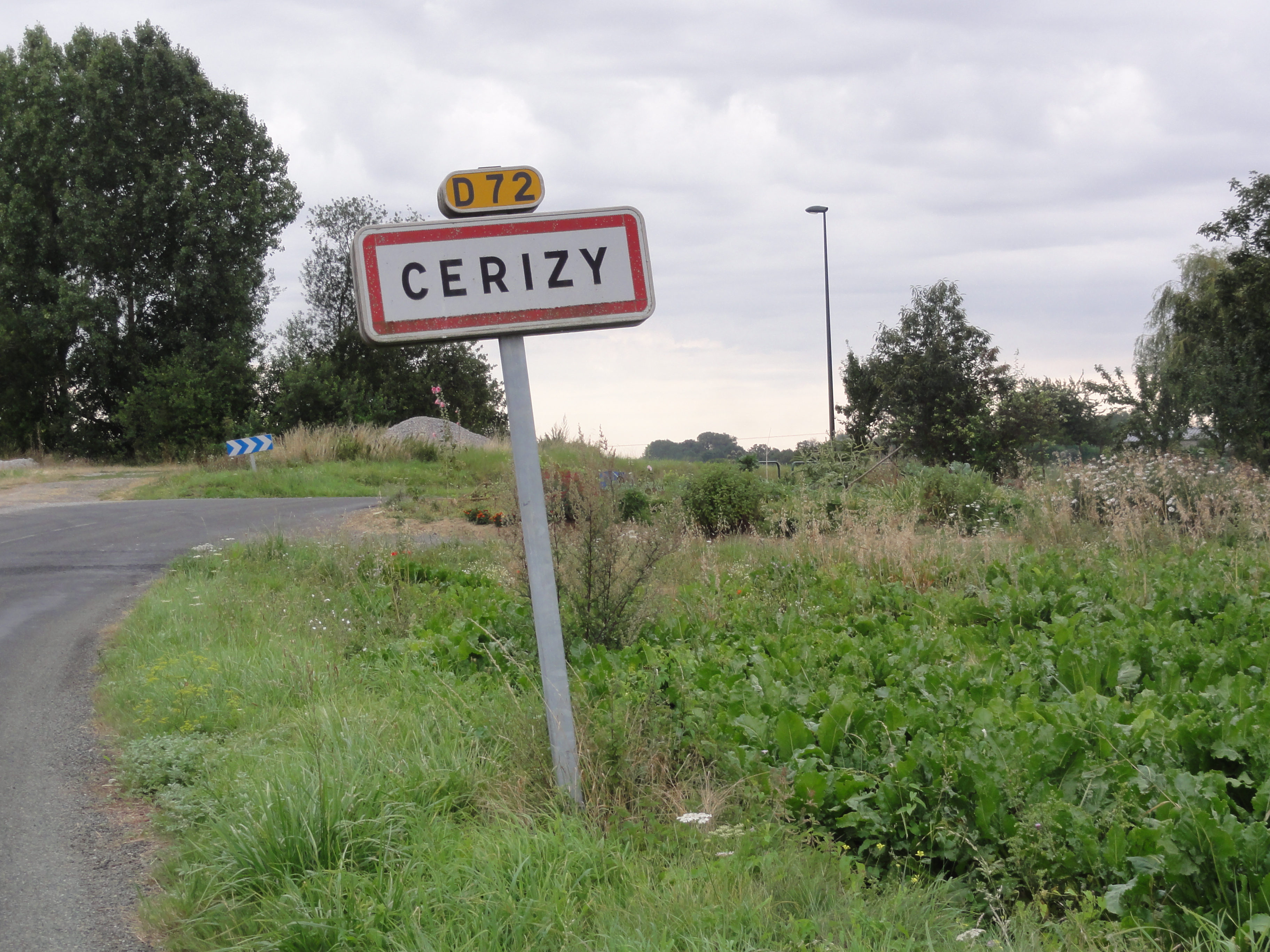 Cerizy (Aisne) city limit sign